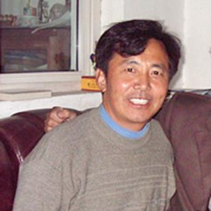 Chinese YaoLifa